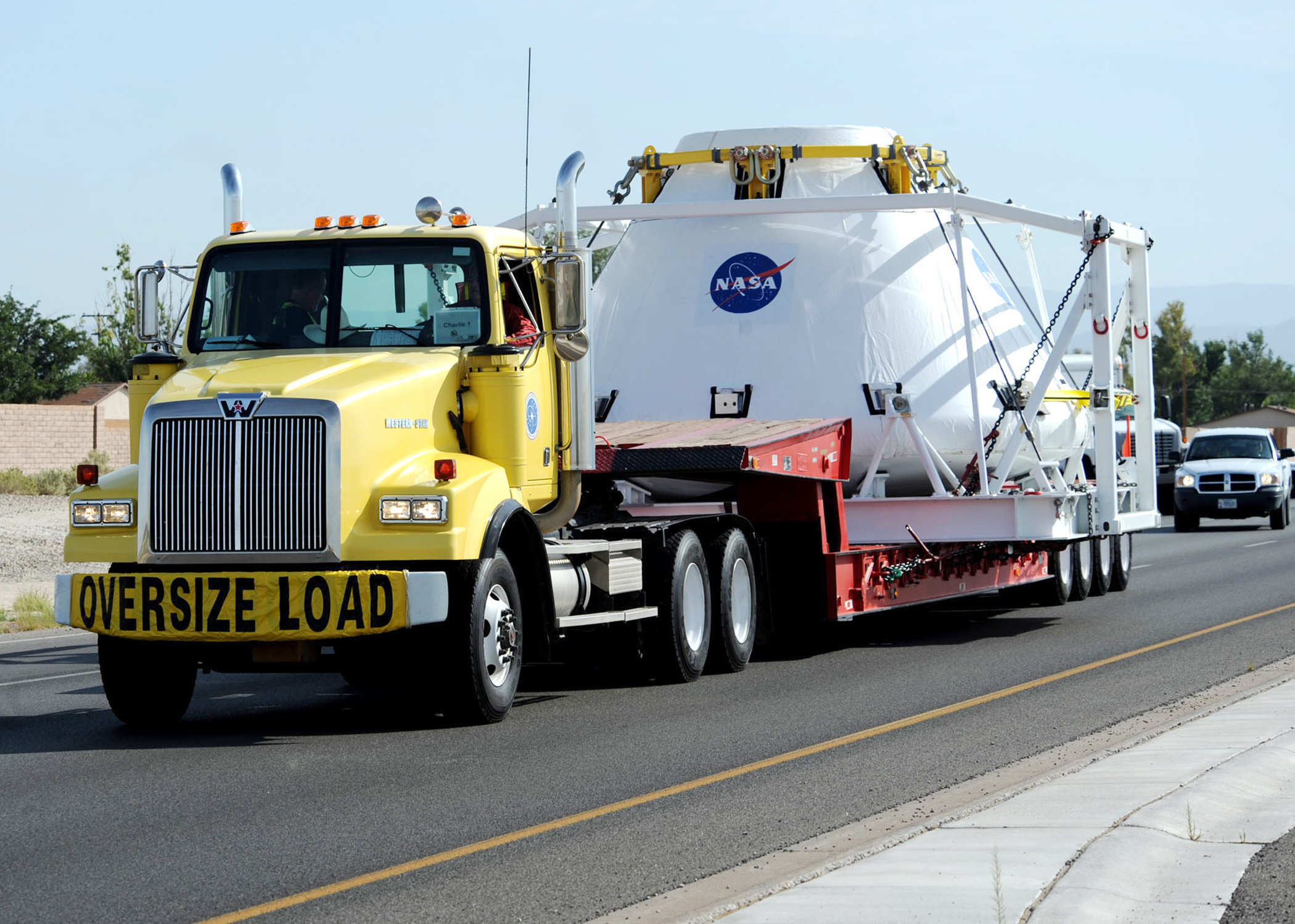 NASA's next generation of manned spacecraft leaves Holloman Air Force Base, N.M. Aug. 21 enroute to White Sands Missile Range, N.M.